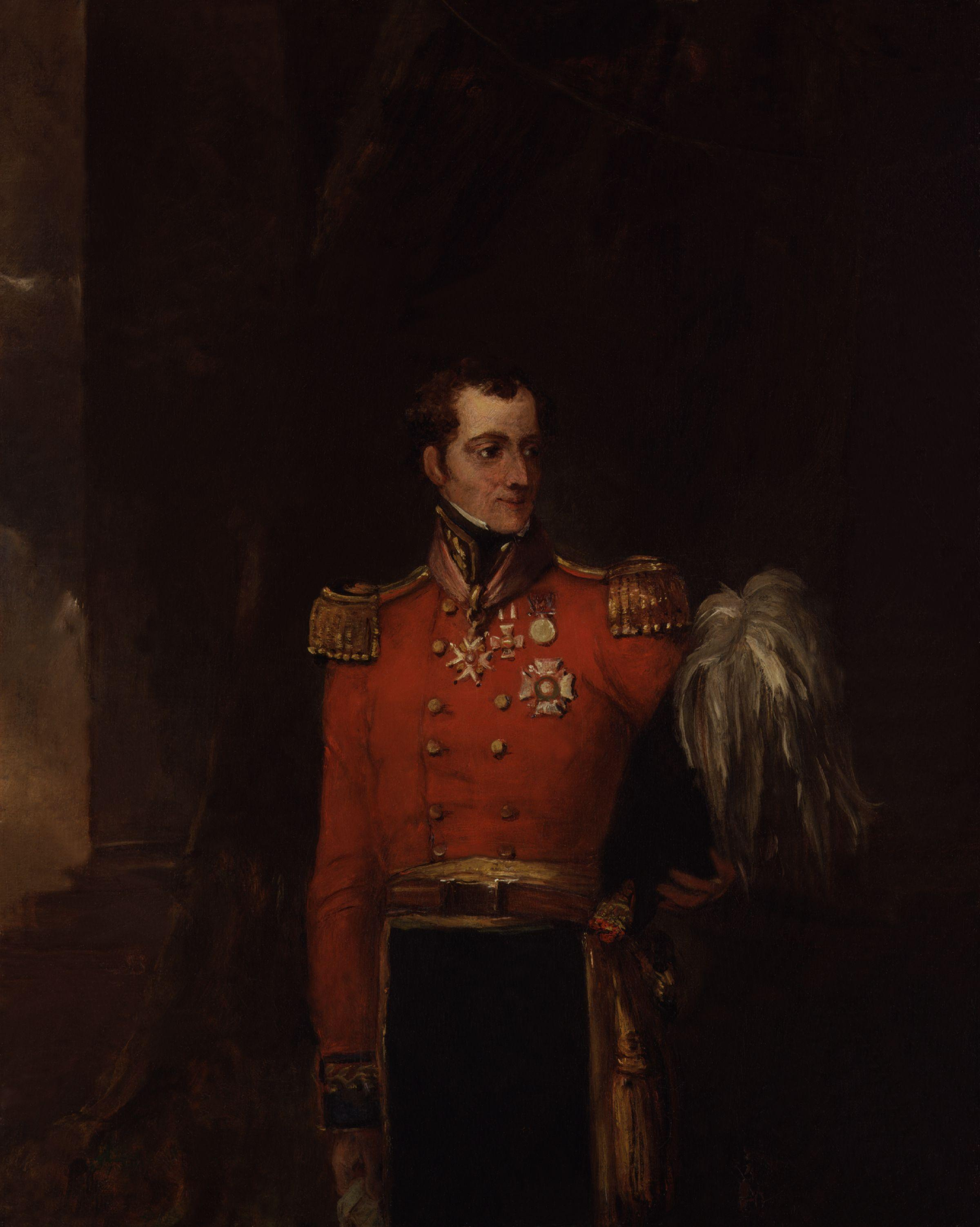 Sir William Maynard Gomm, by William Salter (died 1875). Maynard Gomm GCB (1784 – 15 March 1875), British soldier, was gazetted to the 9th Foot at the age of ten in recognition of the services of his father, Lieutenant-Colonel William Gomm, who was killed in the attack on Guadaloupe (1794). He joined his regiment as a lieutenant in 1799, and fought in the Netherlands under the Duke of York, and subsequently was with Sir James Pulteney's Ferrol expedition. All images in this batch have been confirmed as author died before 1939 according to the official death date listed by the NPG.